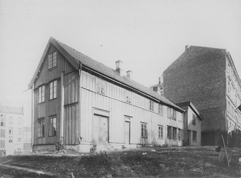 Rosenborggata at Majorstua in Oslo. Peter Christen Asbjørnsen lived here until his death. The house was demolished in 1902.